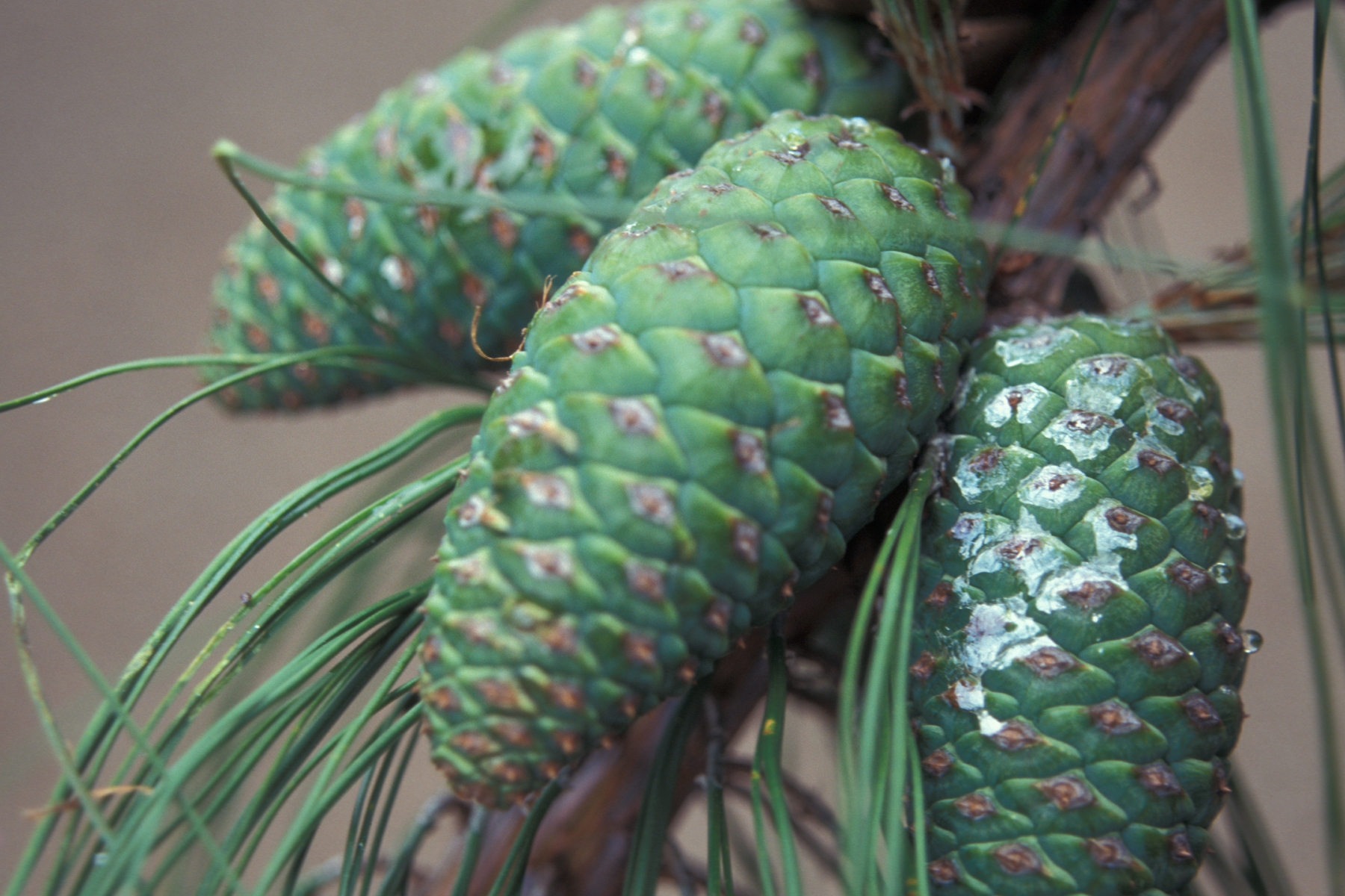 Pinus pseudostrobus (cones). Location: Maui, Hosmers Grove